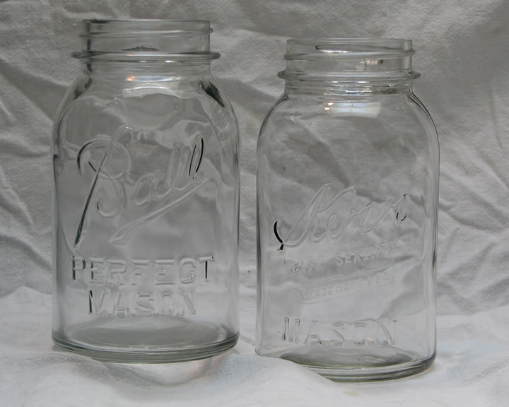 My own file, freely available